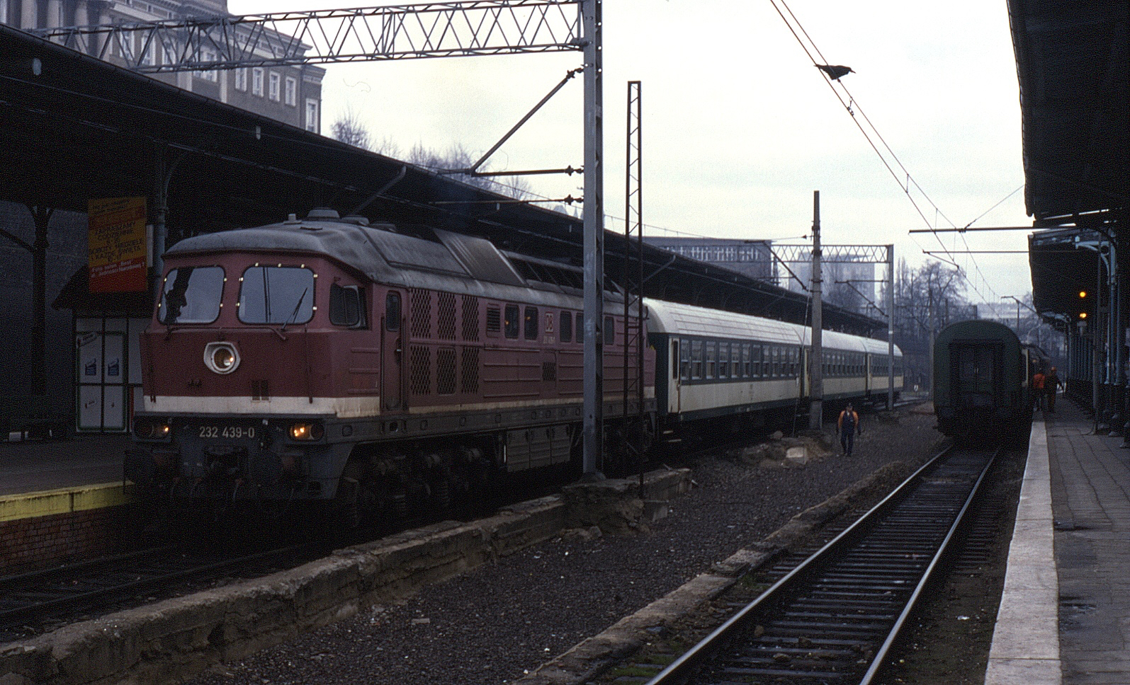 Deutsche Bahn class 232 no. 232.439 seen at Szczecin Główny on a cross-border service taken on 19 November 1994.